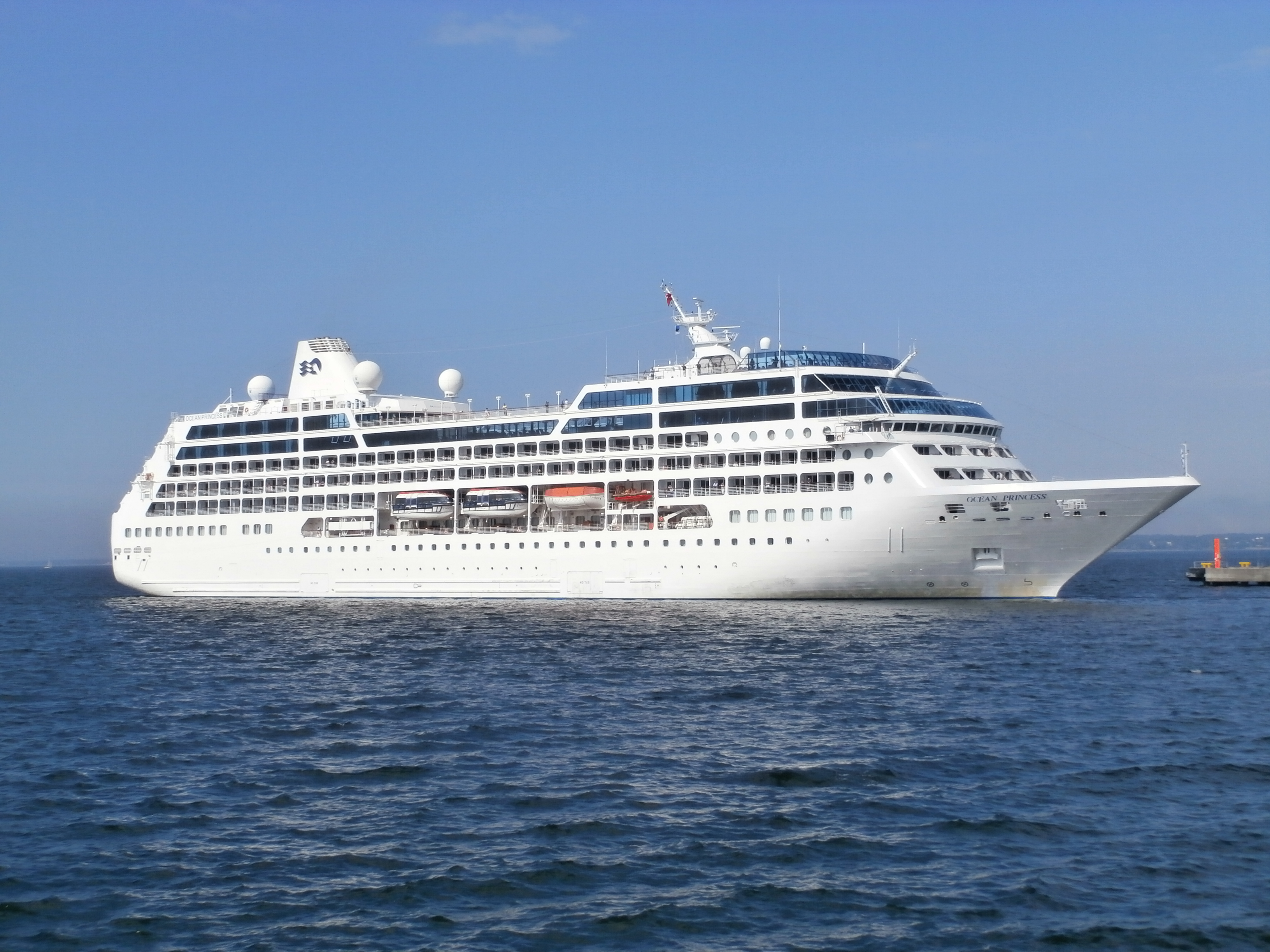 Ocean Princess departing Tallinn 23 June 2013